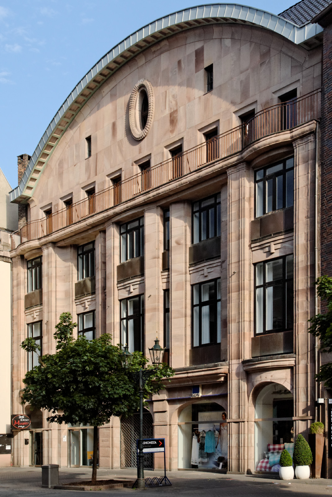 Building Flinger Straße 11 in Düsseldorf-Altstadt, Germany